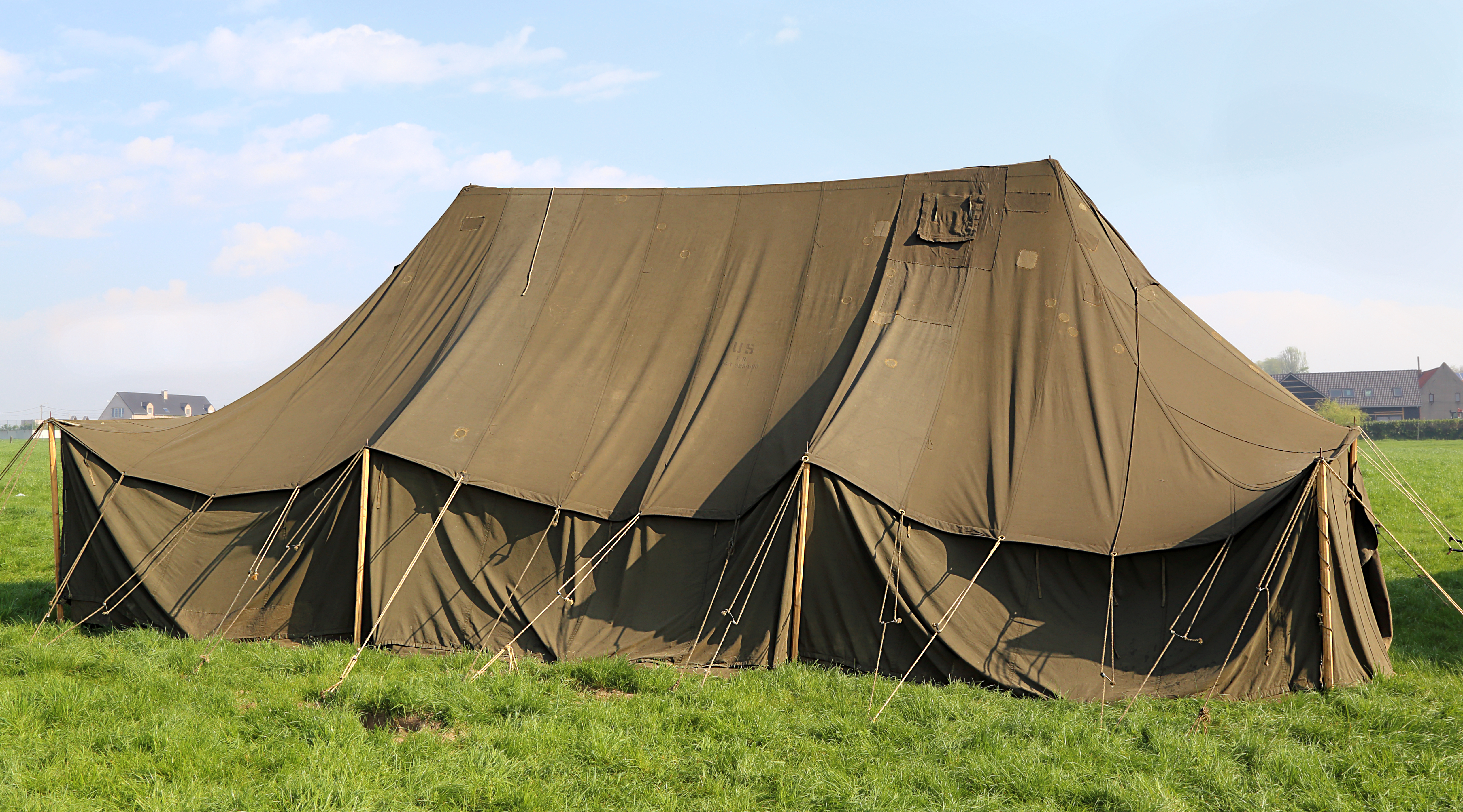 US Squad tent of the second World War. Picture taken in Luingne, Belgium.